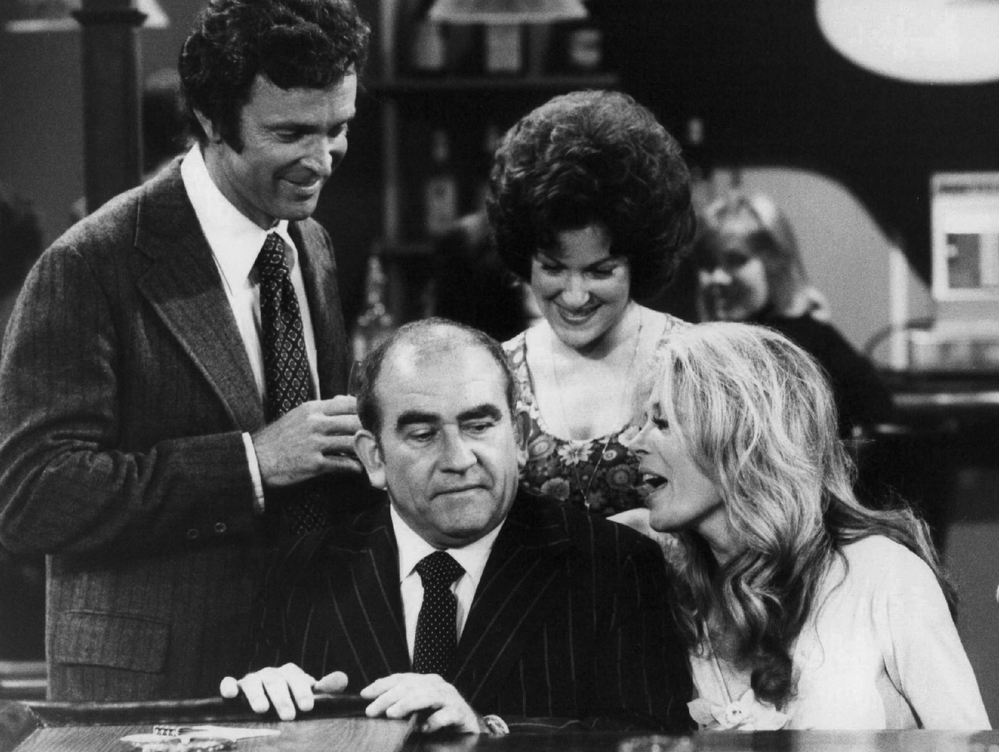 Photo of Ed Asner as Lou Grant and Sheree North as the new woman in his life. After his divorce from Edie, when Lou starts dating again, he finds that it's hard to carry on a romance without attracting a crowd.